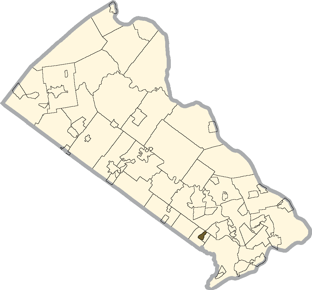 Feasterville shaded on the map of Bucks county, PA.